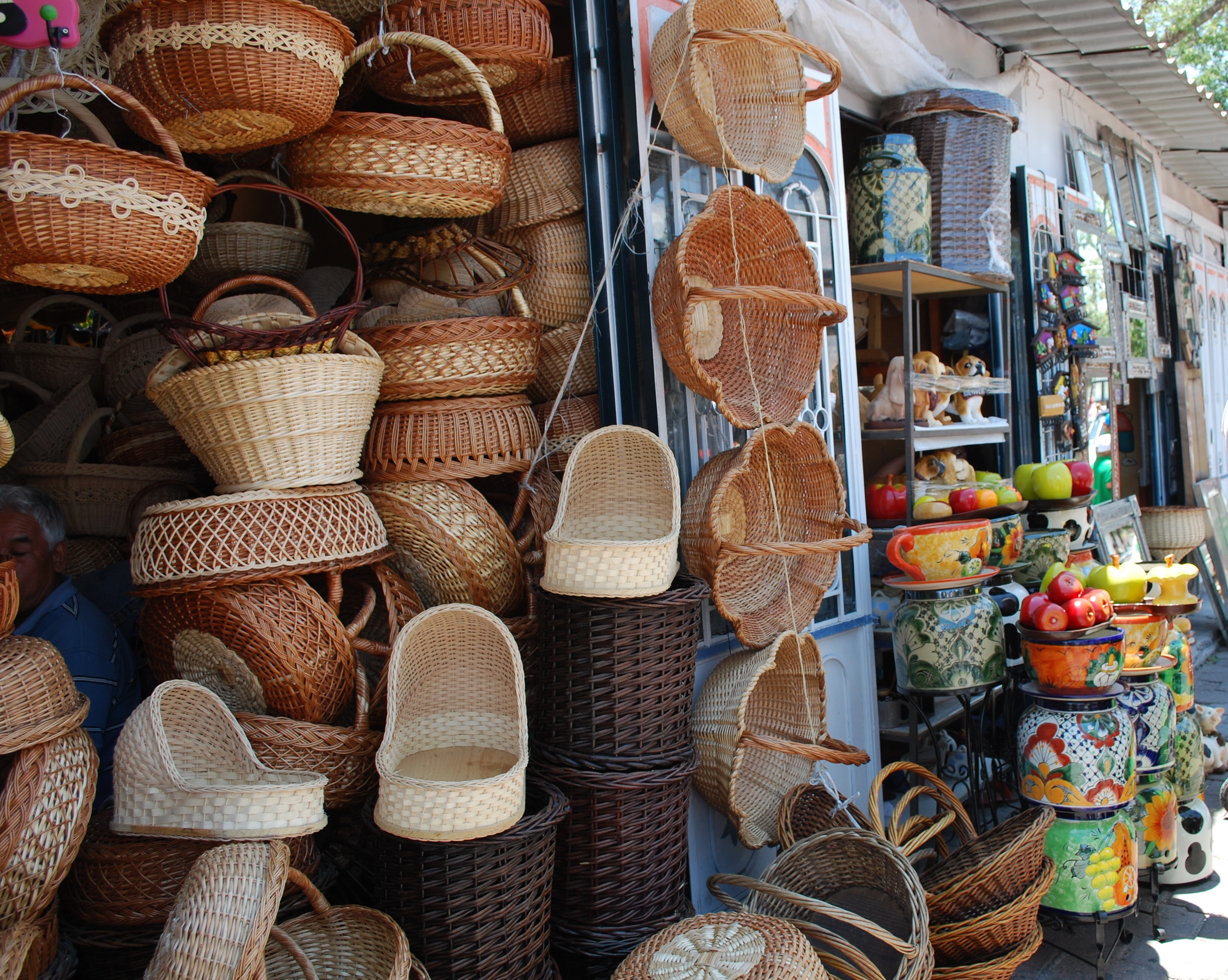 Baskets for sale in Tequisquiapan, Queretaro, Mexico